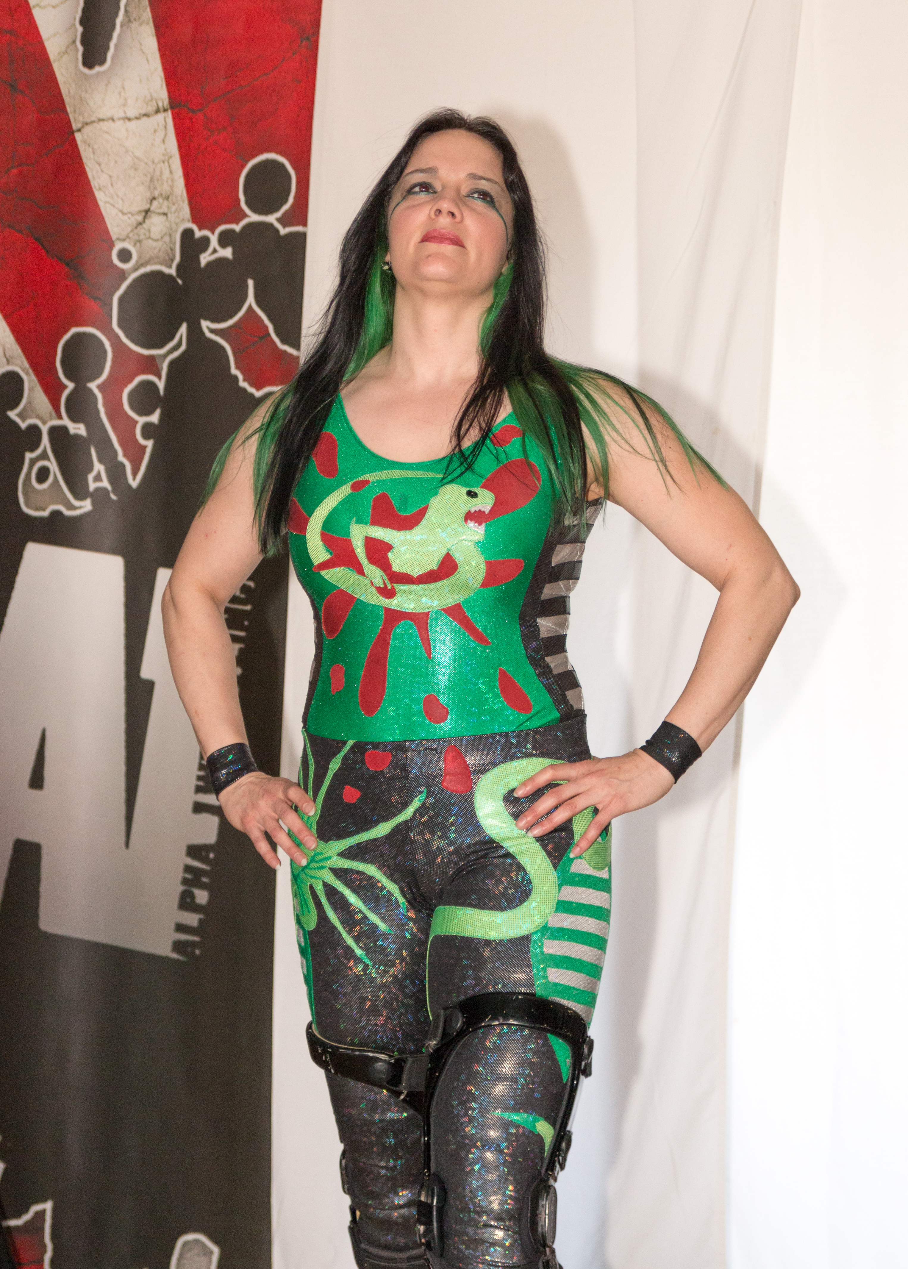 Independent wrestler MsChif making her entrance at Alpha-1 Wrestling's Immortal Kombat 2 show in Hamilton, ON